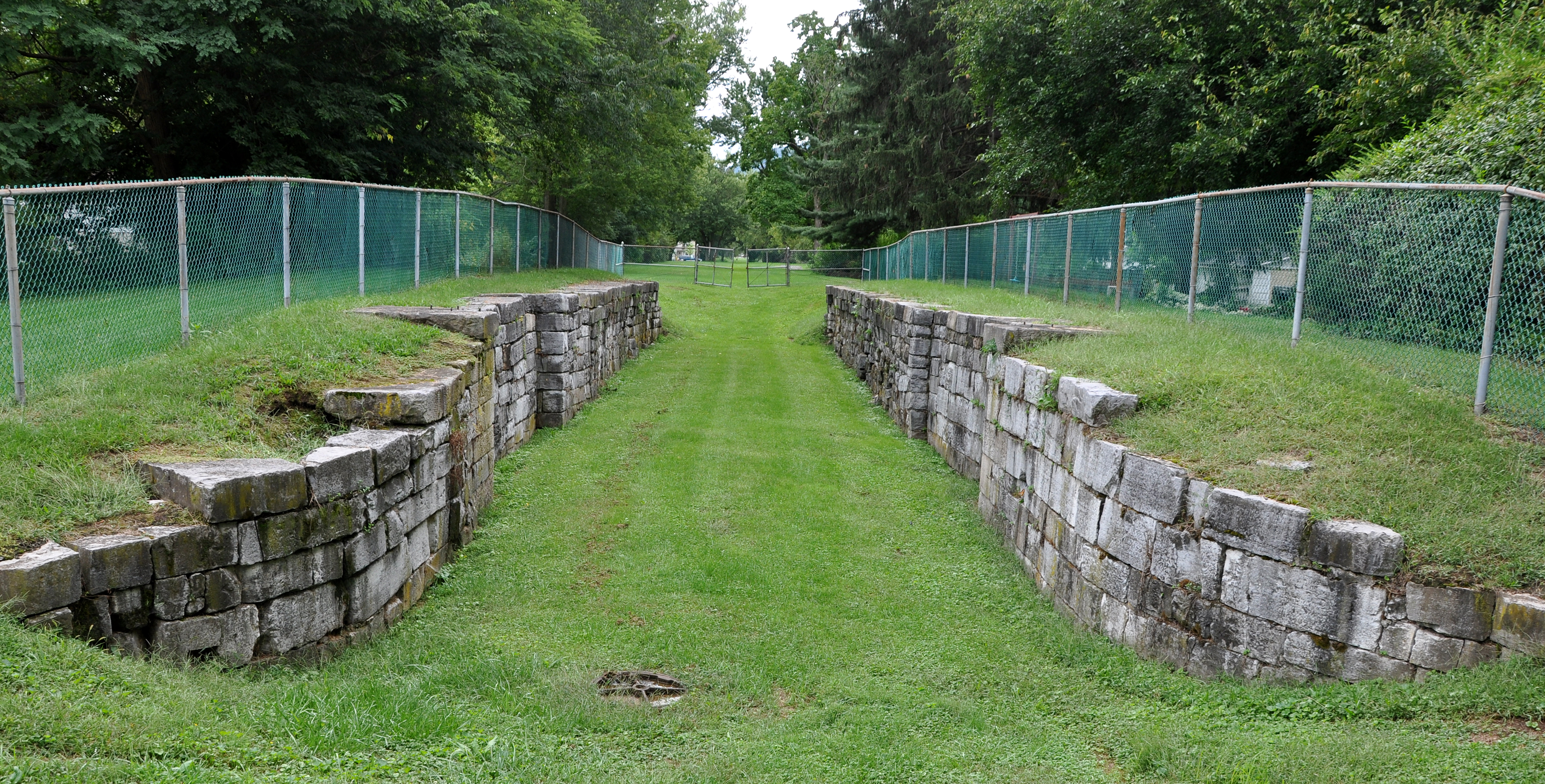 Lock No. 32 of the Pennsylvania Canal (West Branch Division) in Jersey Shore in the U.S. state of Pennsylvania